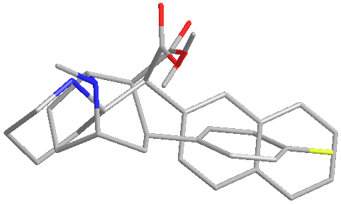 A ball & stick 3D overlay the molecular structures for both HDMP-28 and beta-CFT